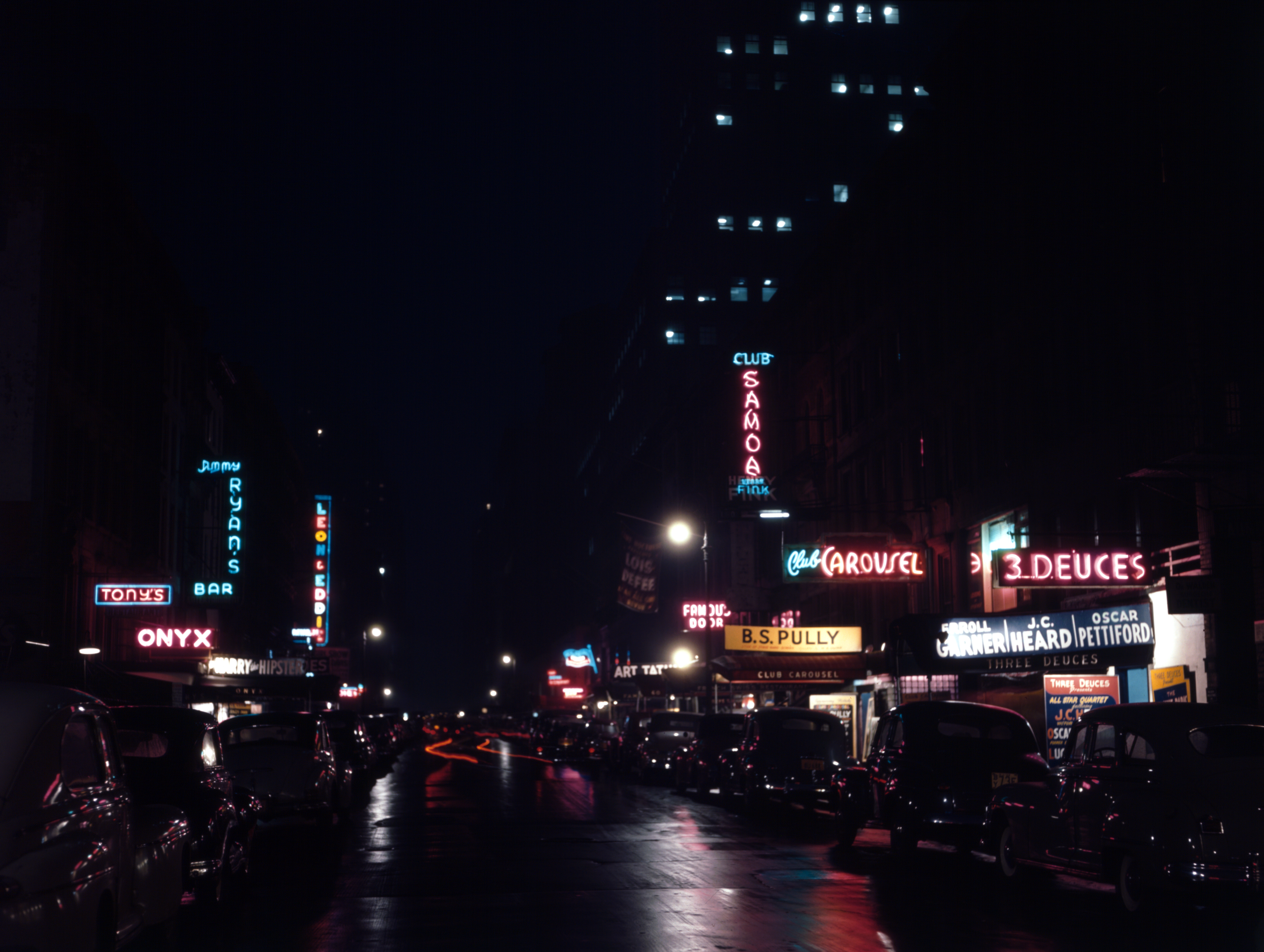 Kodachrome transparency of en:52nd Street (Manhattan) Per Liefbop: This photo is from around May 20, 1948. Harry the Hipster closed at the Onyx in the second half of May. (“Jazz Names Start Street Revival As 2 Ops Nix Girls, “ Down Beat, June 2 1948: 1) Erroll Garner opened at the Three Deuces c. May 20. (“Goings on About Town,“ New Yorker, May 22, 1948). Famous Door reopened with Art Tatum on May 7. (“Music–As Written", Billboard, May 8, 1948: 28).